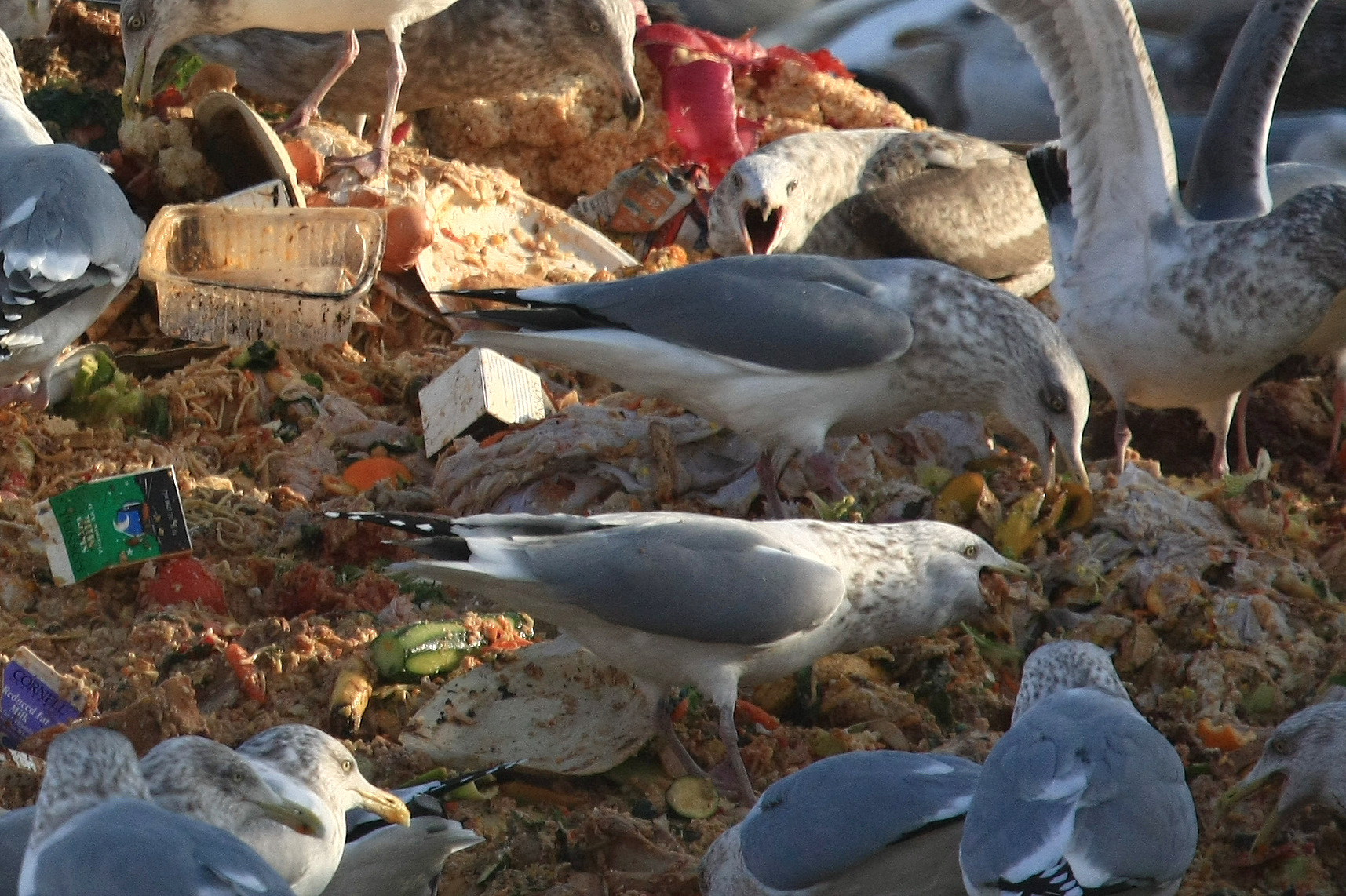 American Herring Gulls Larus smithsonianus, feeding on human rubbish/garbage.